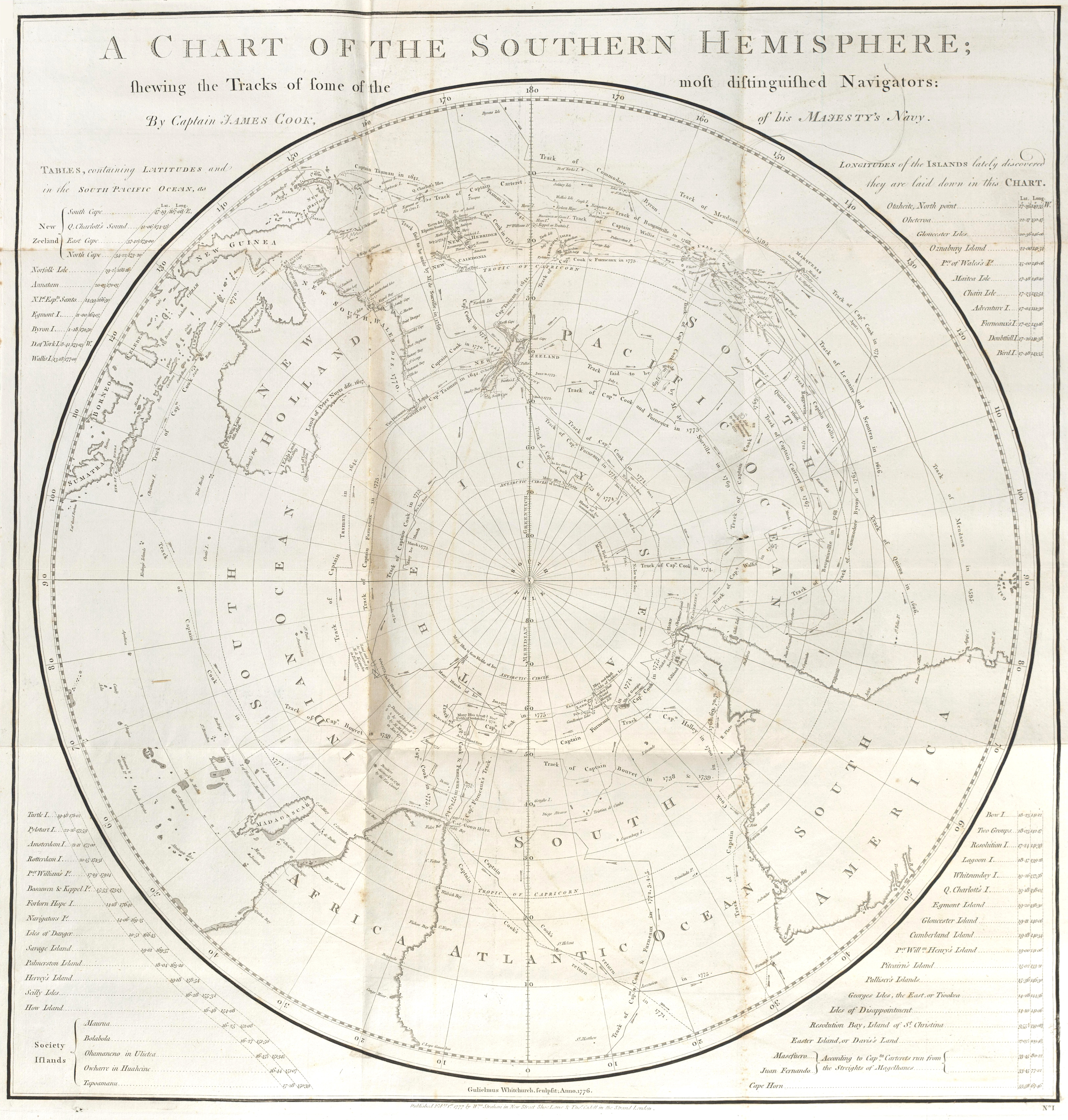 A Chart of the Southern Hemisphere; shewing the Tracks of some of the most distinguished Navigators: By Captain James Cook, of his Majesty's Navy. [English version]